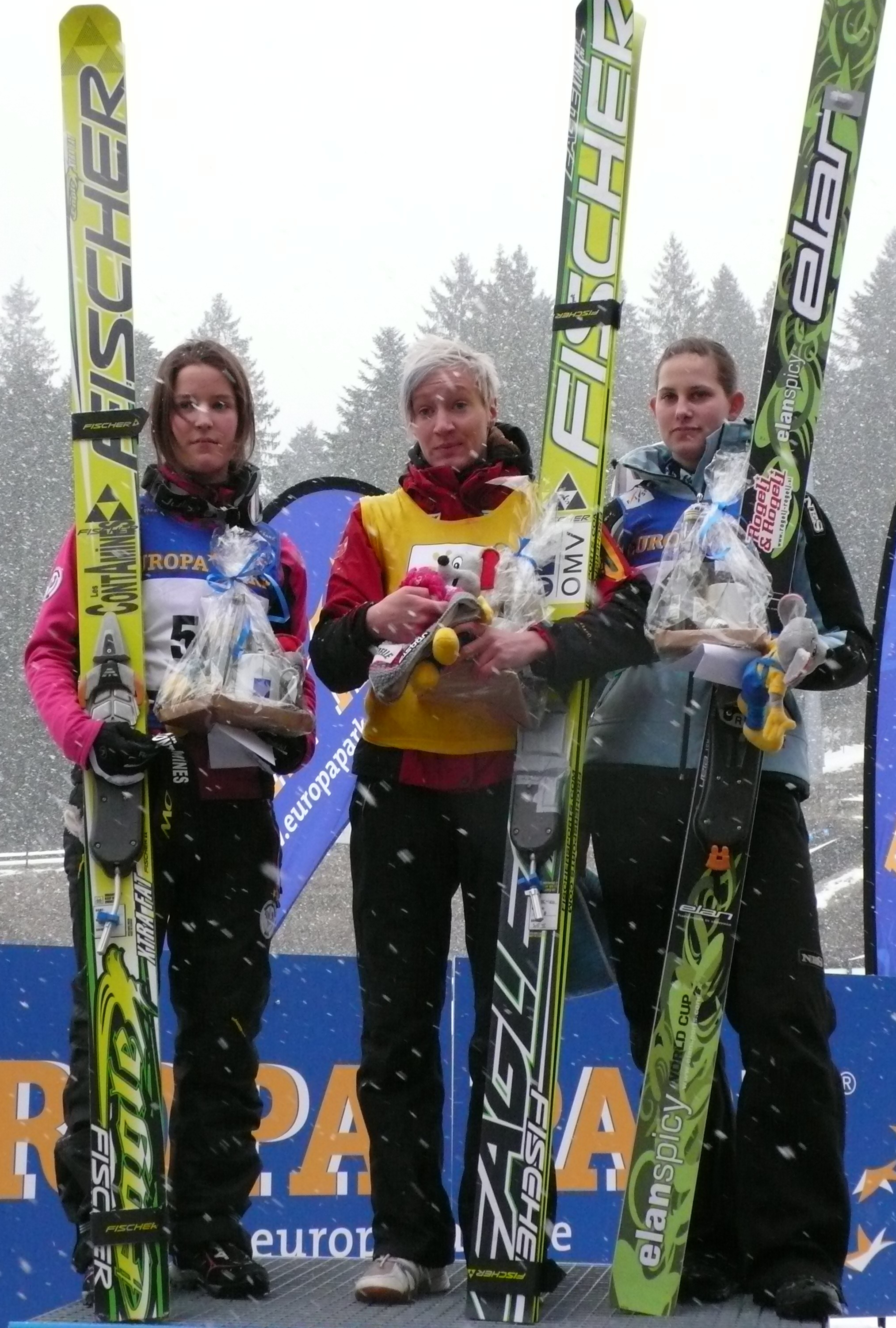 Daniela Iraschko 1st, Coline Mattel 2nd and Eva Logar 3rd place at the Ski jumping Continental Cup in Hinterzarten on the 2011-01-12, first competition.